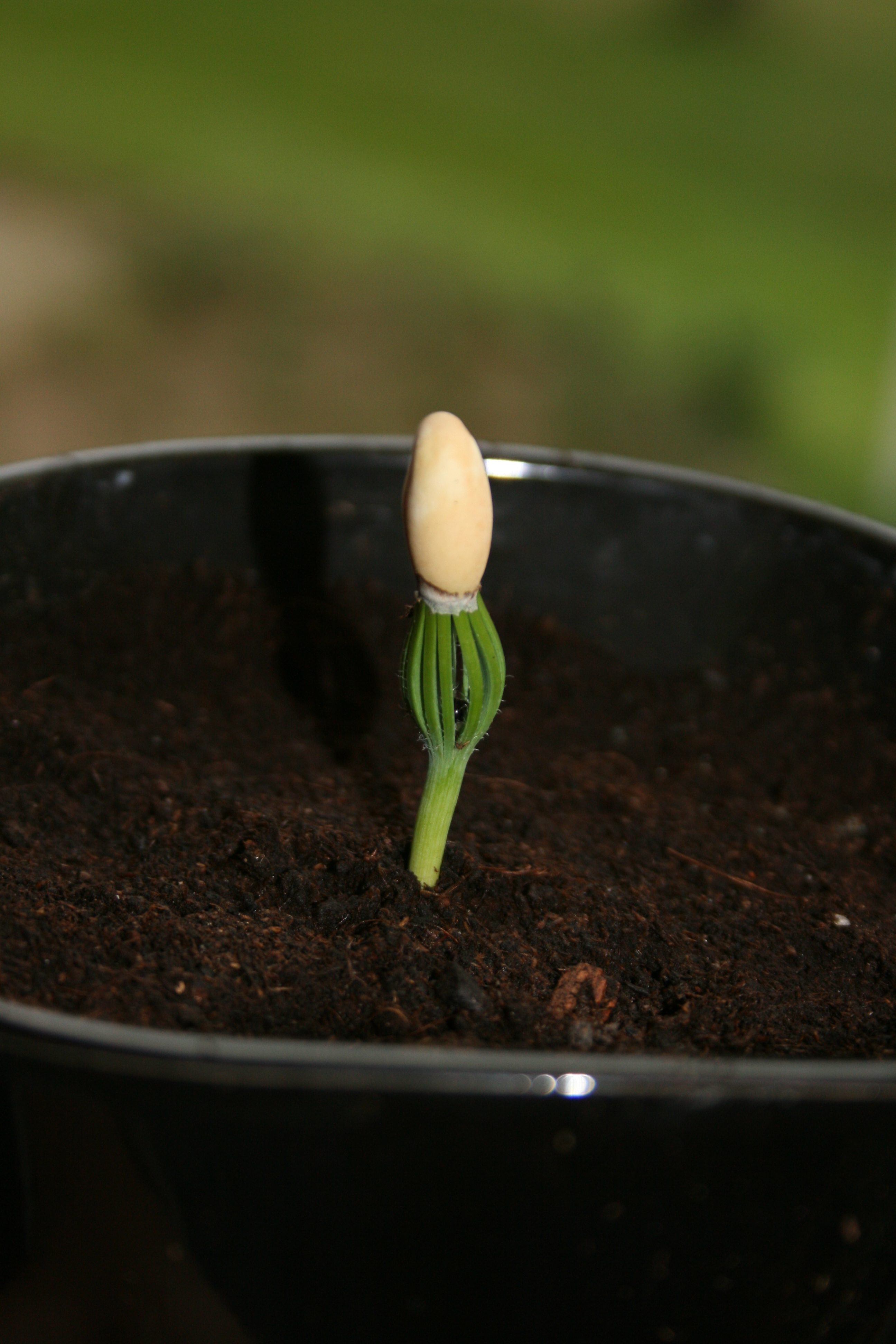 Juvenile stone pine with seed